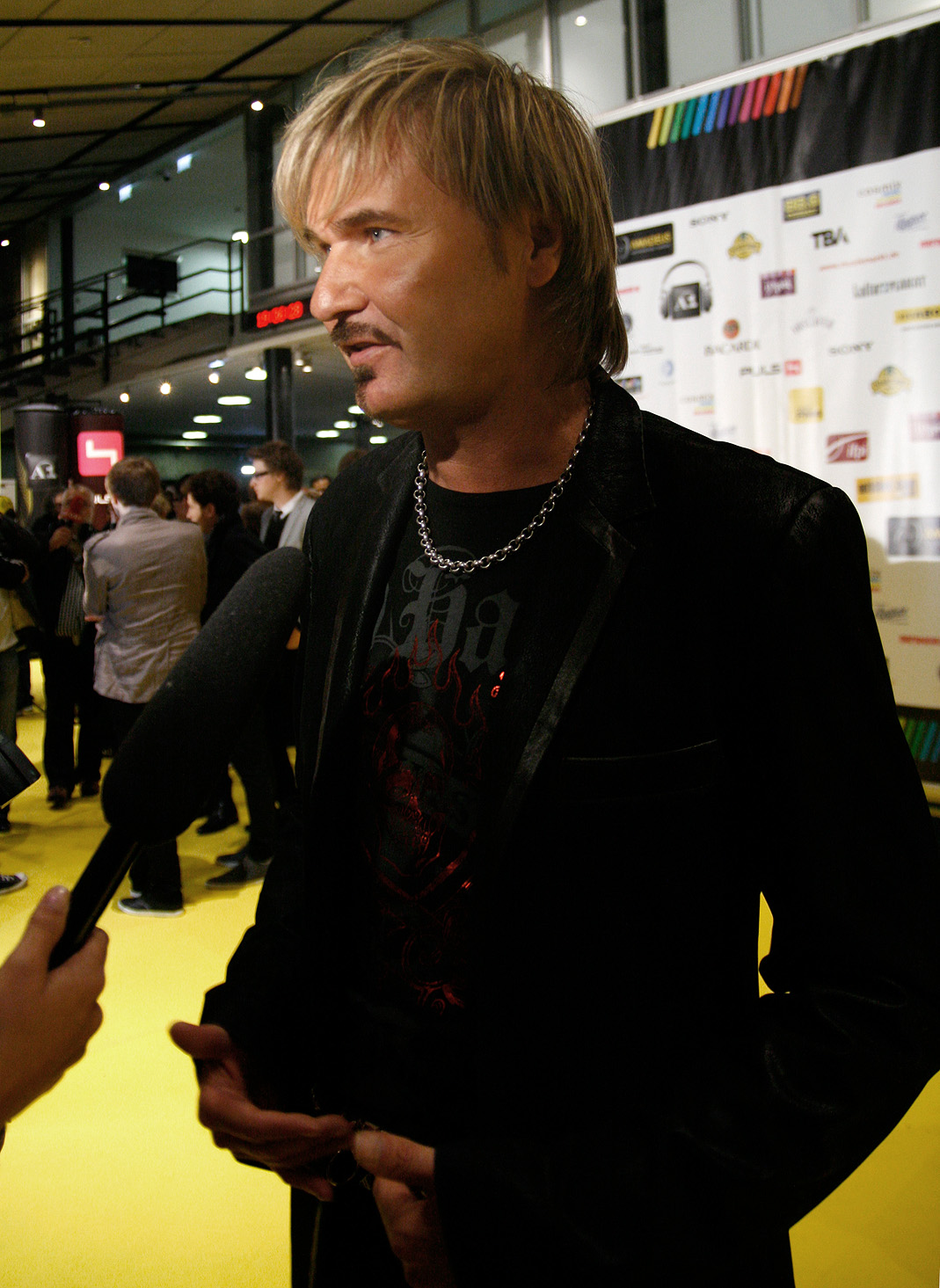 Nik P. at the Amadeus Austrian Music Award 2010 (Wiener Stadthalle, Vienna, Austria)